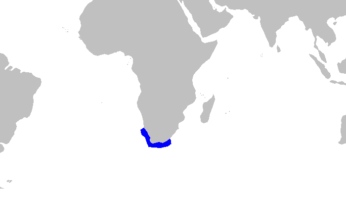 Distribution map for Haploblepharus pictus